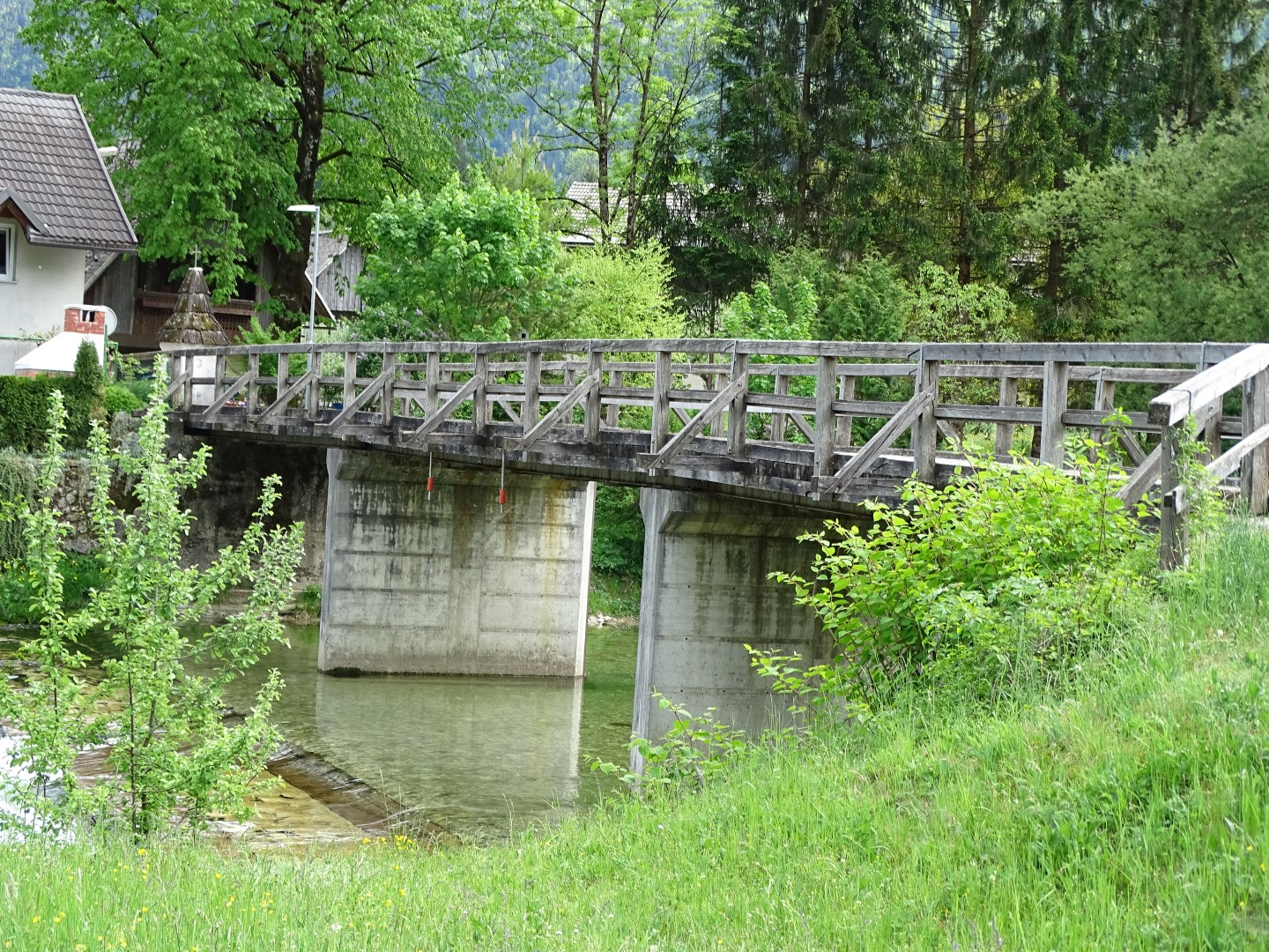 The bridge across the river Sava in Savica